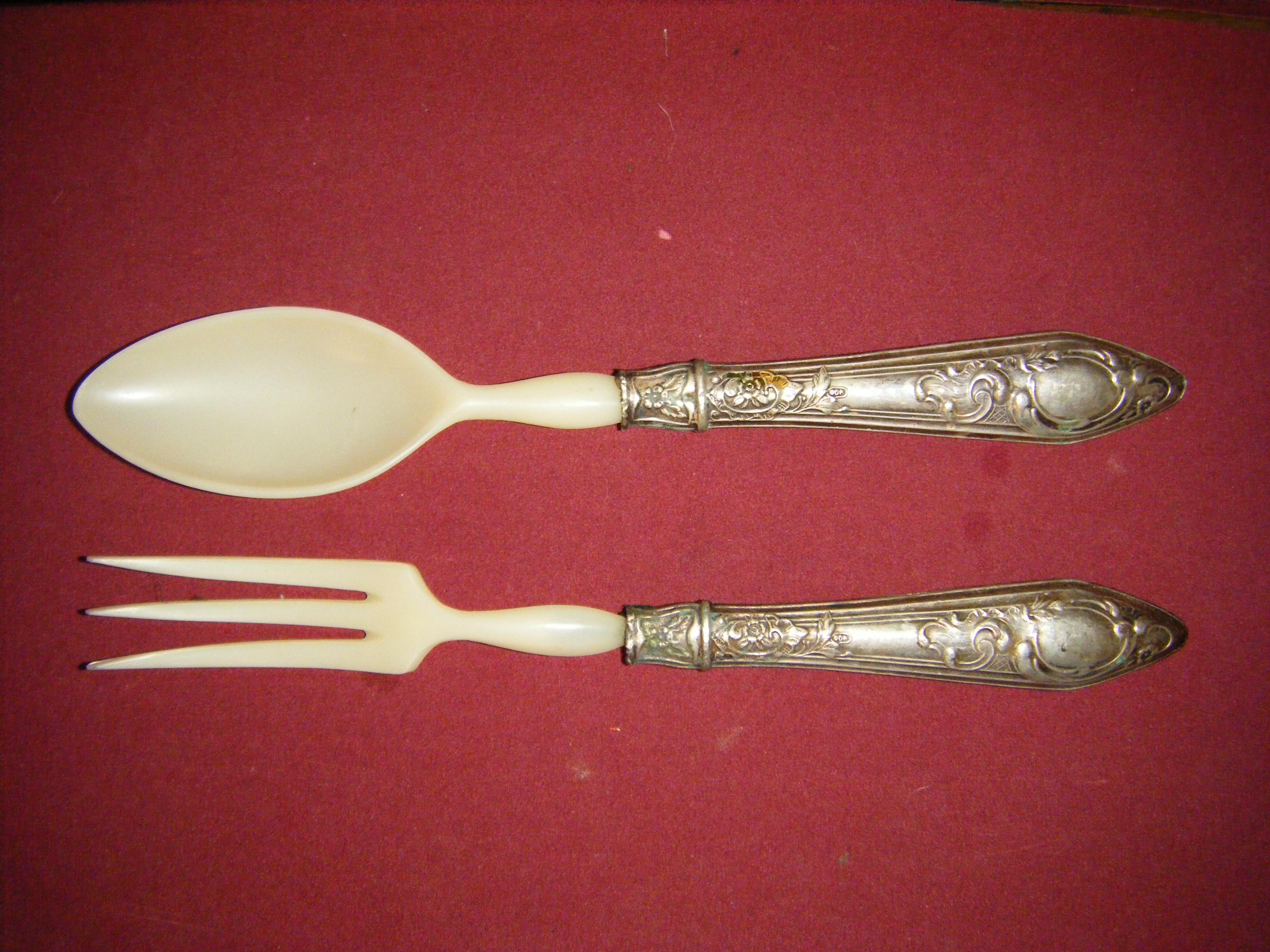 Vintage Fork and spoon for salade (ivory and silver)(about half of XIX cent.)